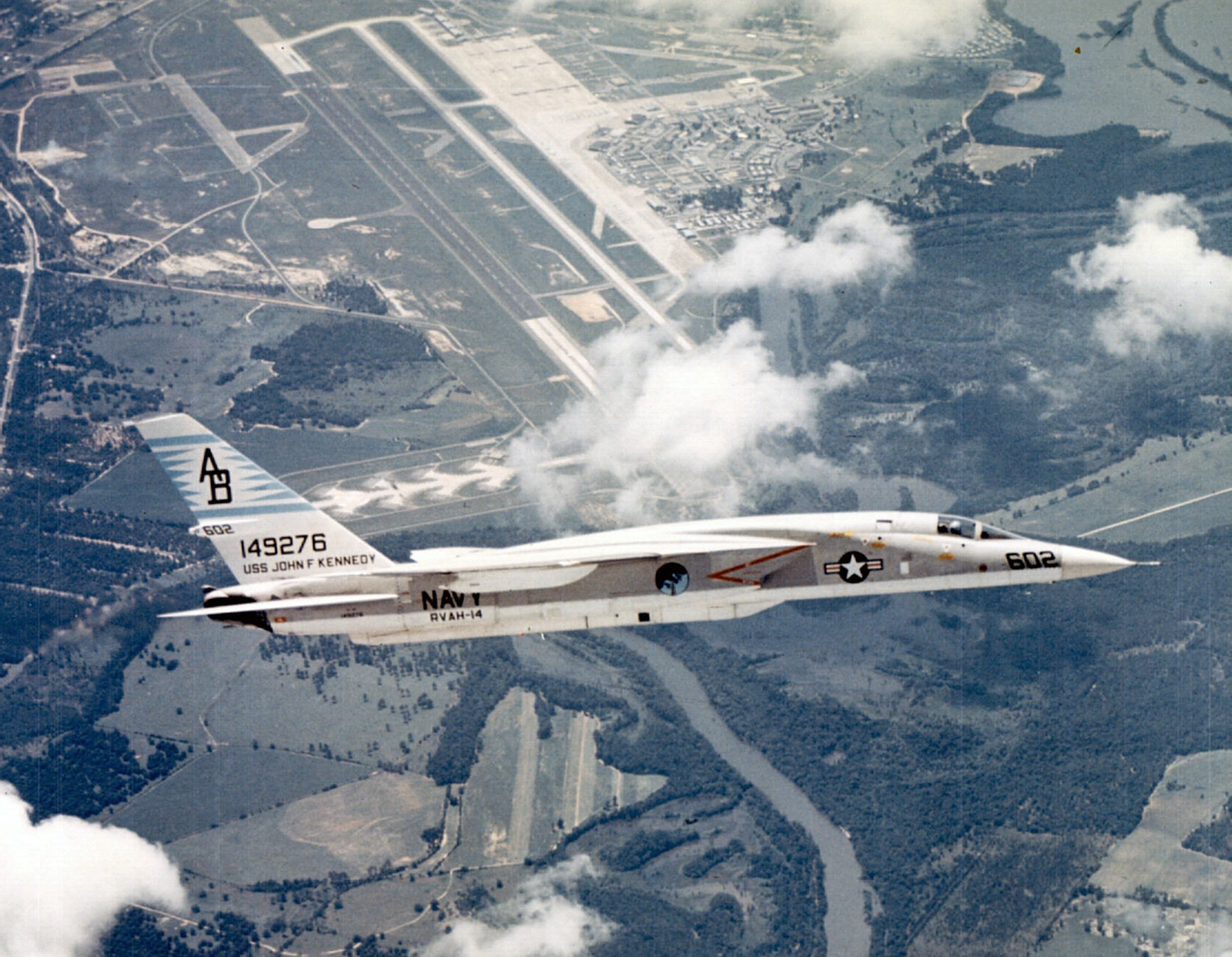 A U.S. Navy North American RA-5C Vigilante (BuNo 149276) of Reconnaissance Heavy Attack Squadron 14 (RVAH-14) Eagle Eyes in flight near Naval Air Station Albany, Georgia (USA). RVAH-14 was assigned to Carrier Air Wing 1 (CVW-1) aboard the aircraft carrier USS John F. Kennedy (CVA-67).